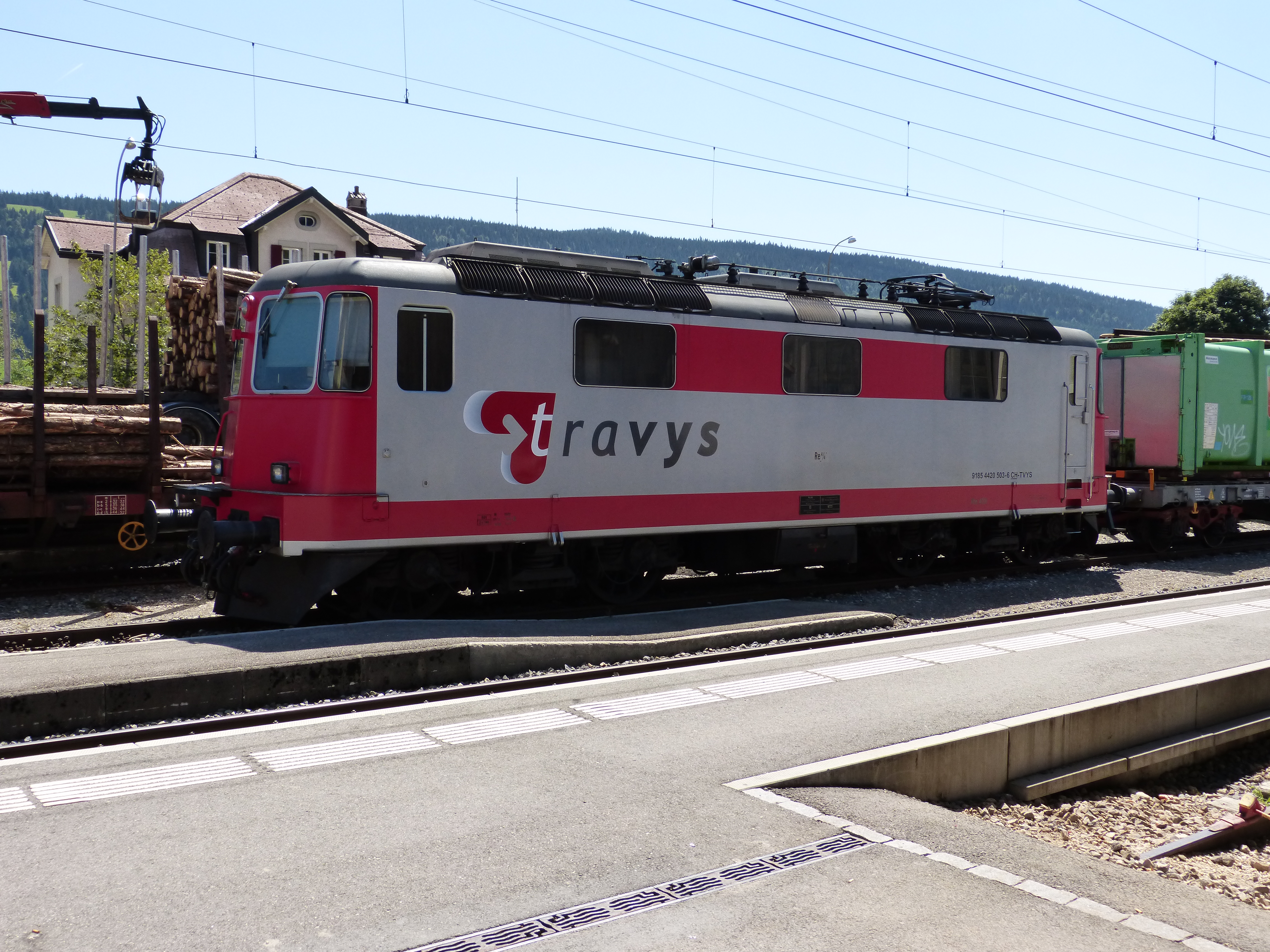 Re 420 503-6 Travys at the railway station Sentier-Orient.